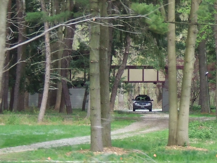 Louis Penfield House, Willoughby Hills, OH